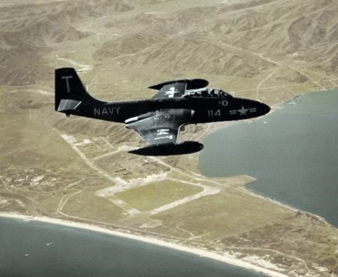 A McDonnell F2H-2 Banshee (BuNo 125663) of Fighter Squadron VF-11 "Red Rippers" over Wonsan, Korea, on 20 October 1952. VF-11 was assigned to Carrier Air Group 101 (CVG-101) aboard the aircraft carrier USS Kearsarge (CV-33) during the deployment to Korea from 11 August 1952 to 17 March 1953. Pilot of this plane was Ensign Buffkin. CVG-101 was redesignated CVG-14 during that cruise on 4 February 1953.